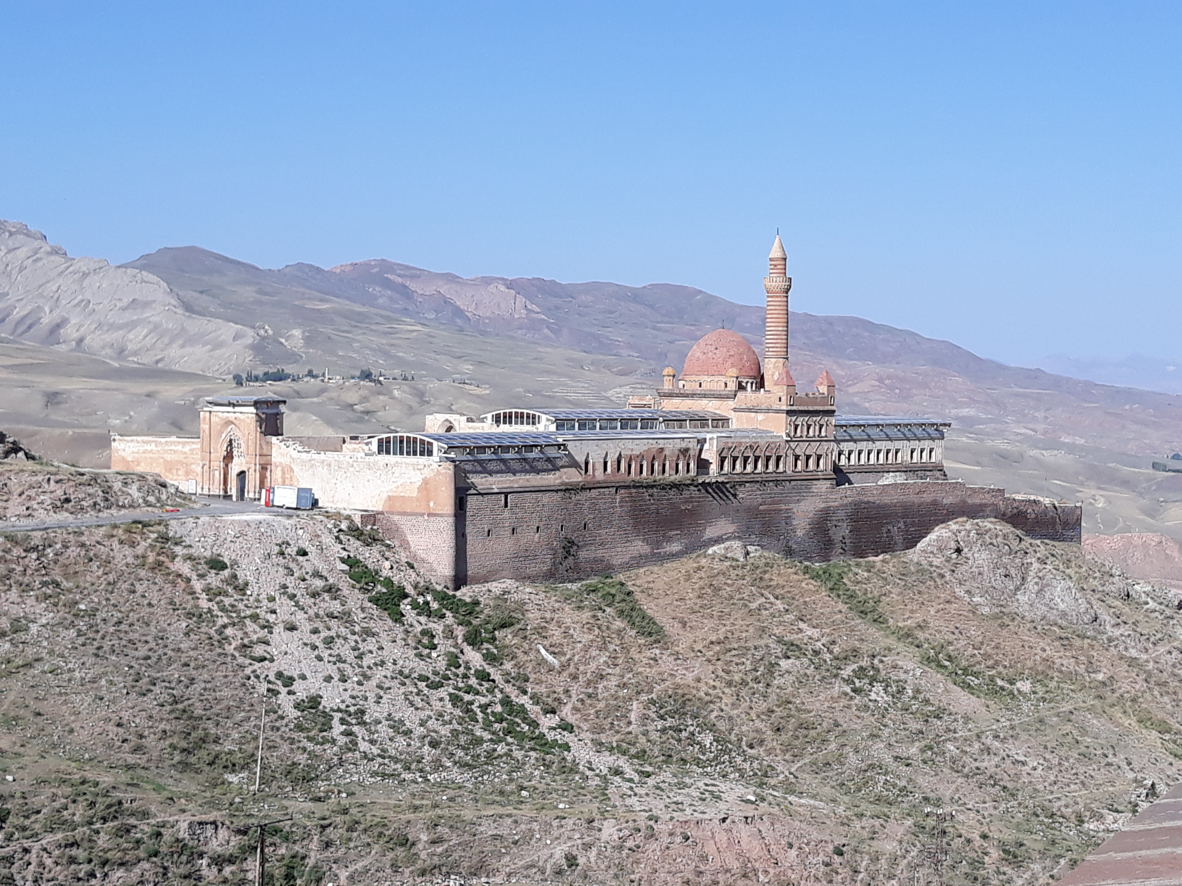 Ishak Pasha Palace from Bayazet castle